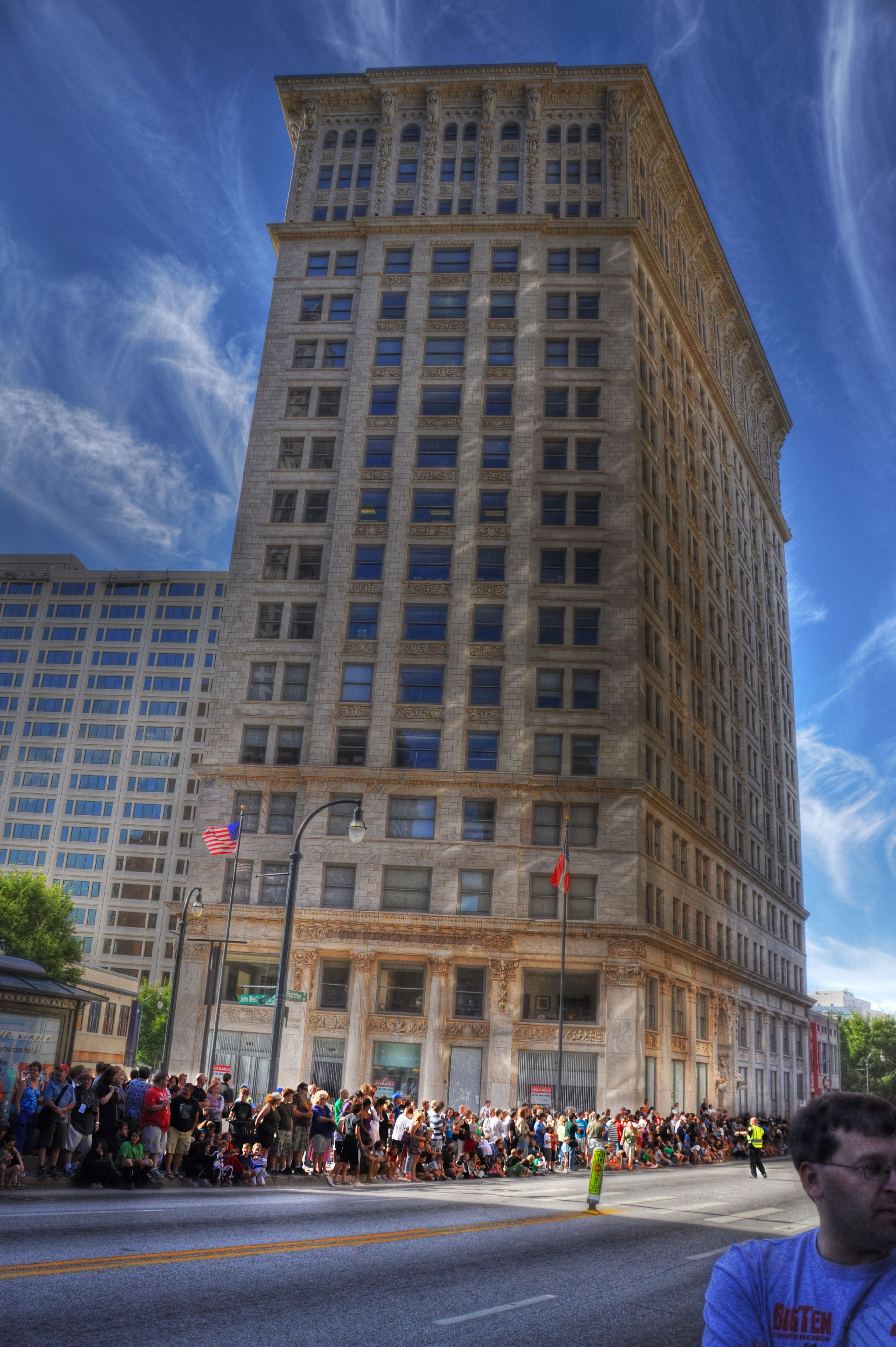 Candler Building (Atlanta) during the Dragon Con Parade 2010